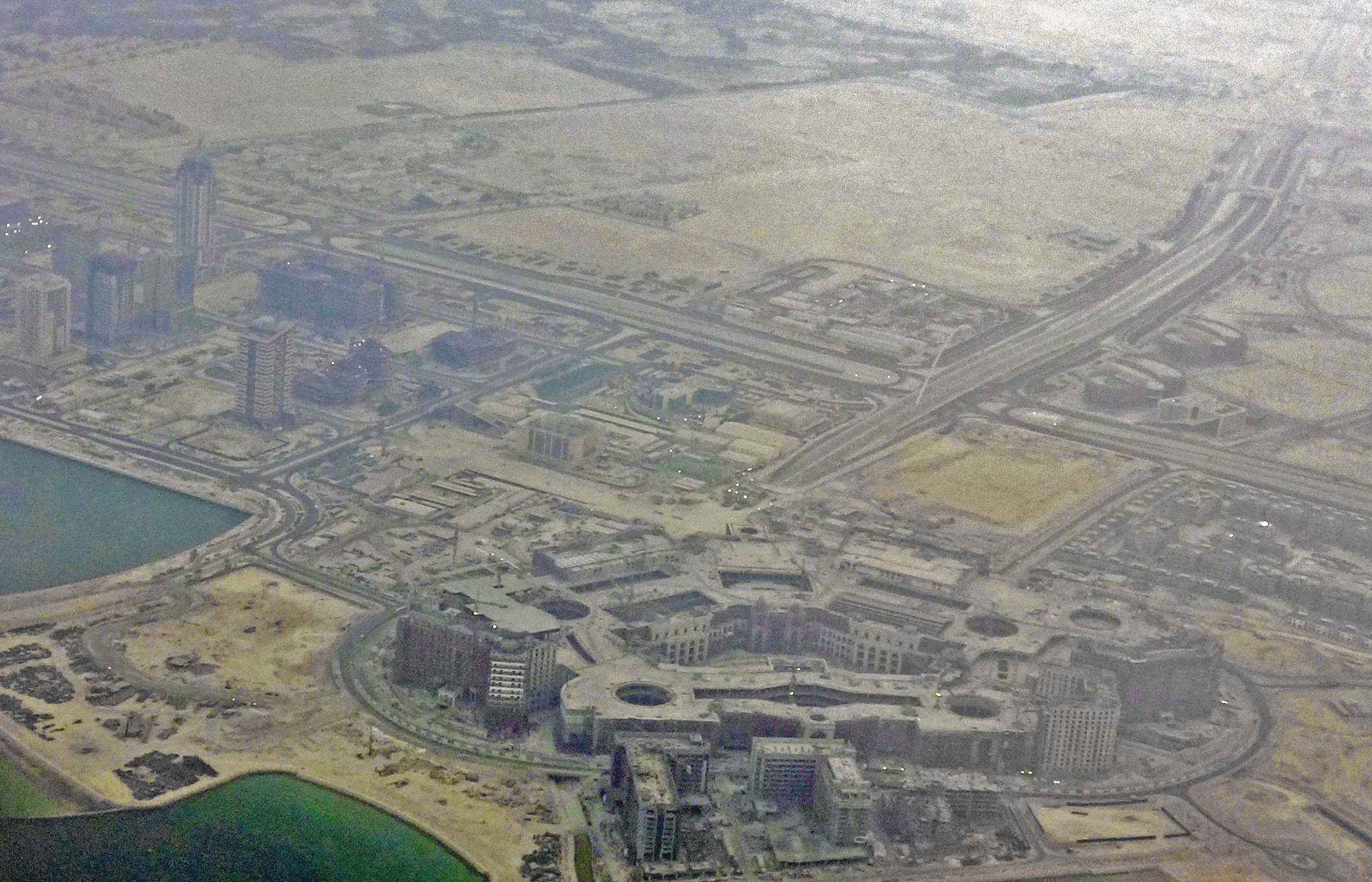 Aerial photograph of Place Vendôme shopping mall in Lusail, Qatar in 2017.